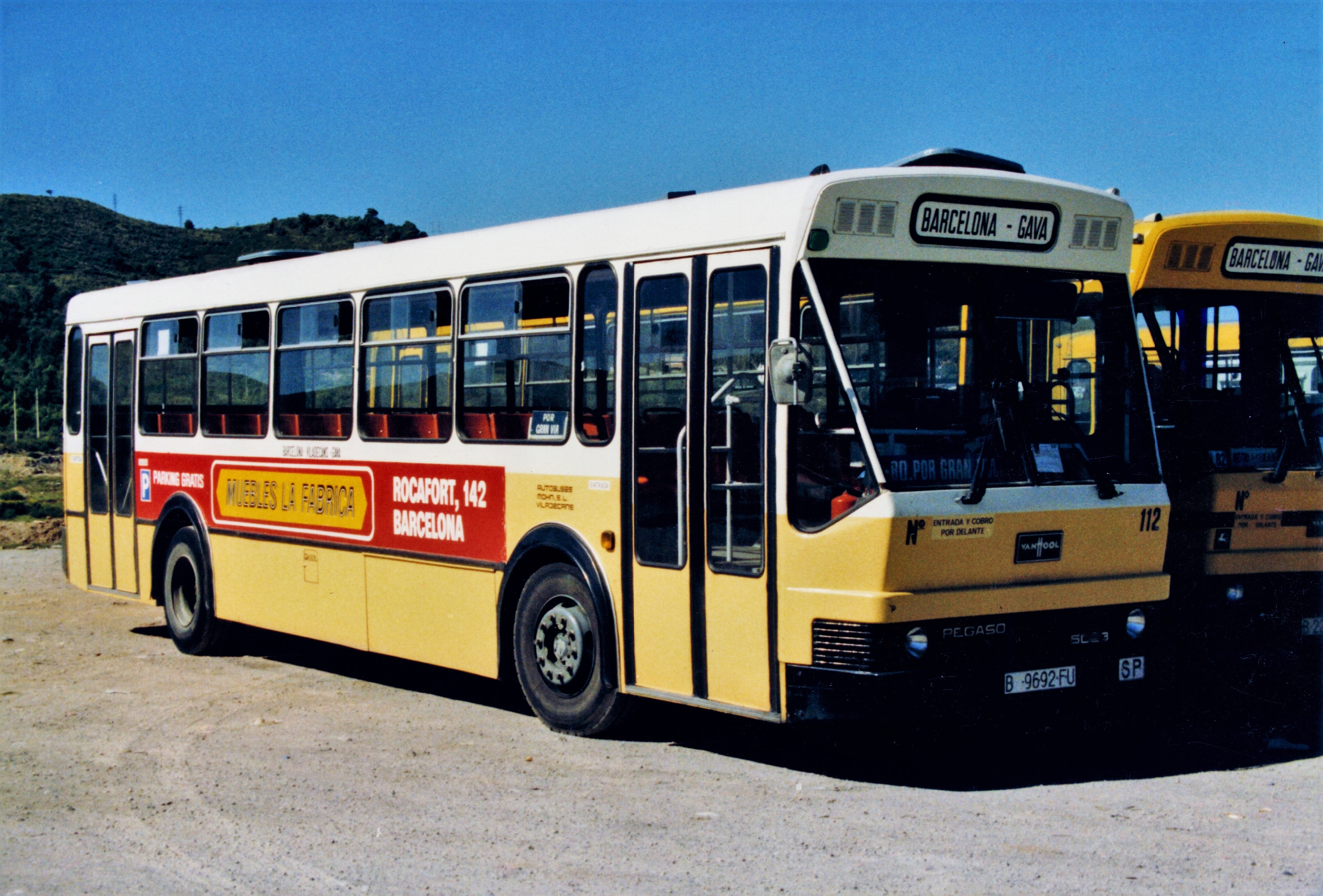 The Pegaso 5023 / Van Hool bus number 112 of Mohn S.L. at the Gavá terminal located on the Begas road.